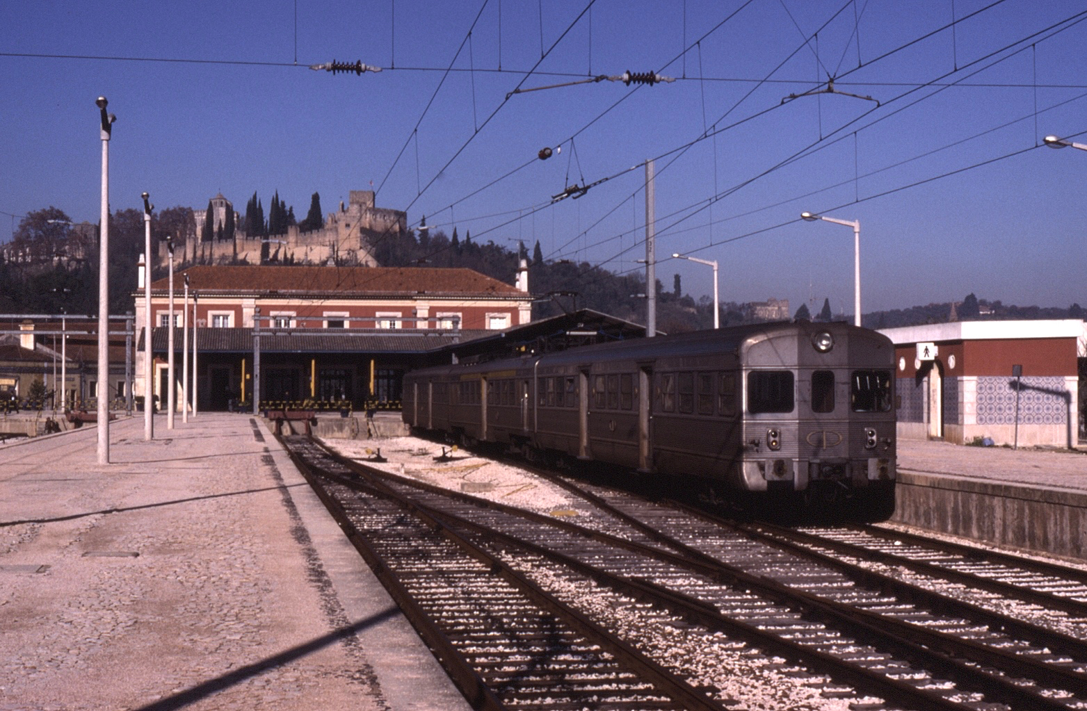 1 December 1990 sees class 2100 EMU no. 2107 on train R4432, 11:45 Tomar to Entroncamento.